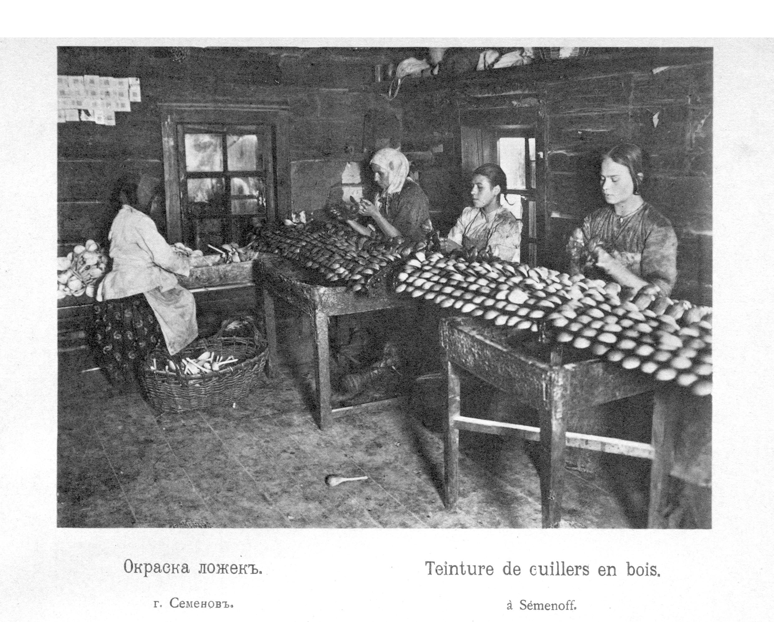 Handicraft Industry and Trades of Nizhegorodskaja gubernija. Semenov. XIX c.